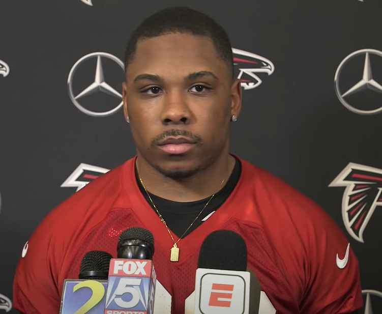 Qadree Ollison in 2019